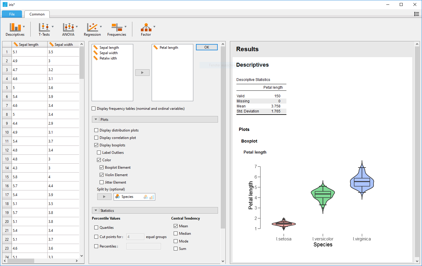 Sccreenshot from JASP software version 0.8.2